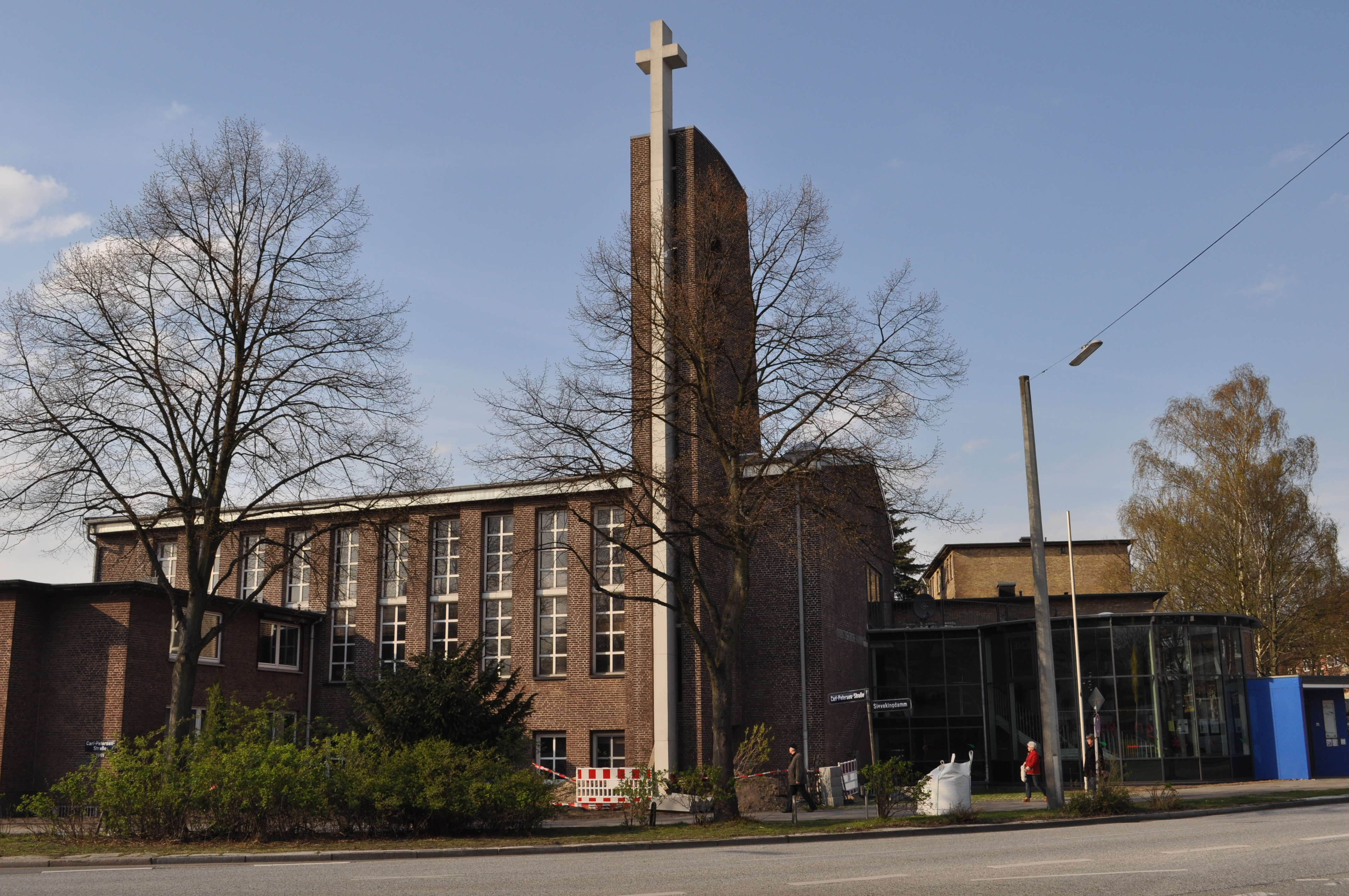 Evangelisch-methodistische Christuskirche in Hamburg-Hamm This is a photograph of an architectural monument.